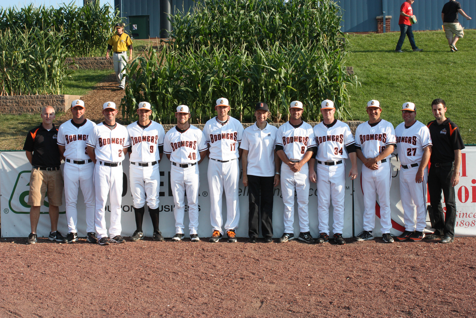 The 2012 Schaumburg Boomers All-Star players & coaches pose with Owner Pat Salvi and General Manager Andy Viano.